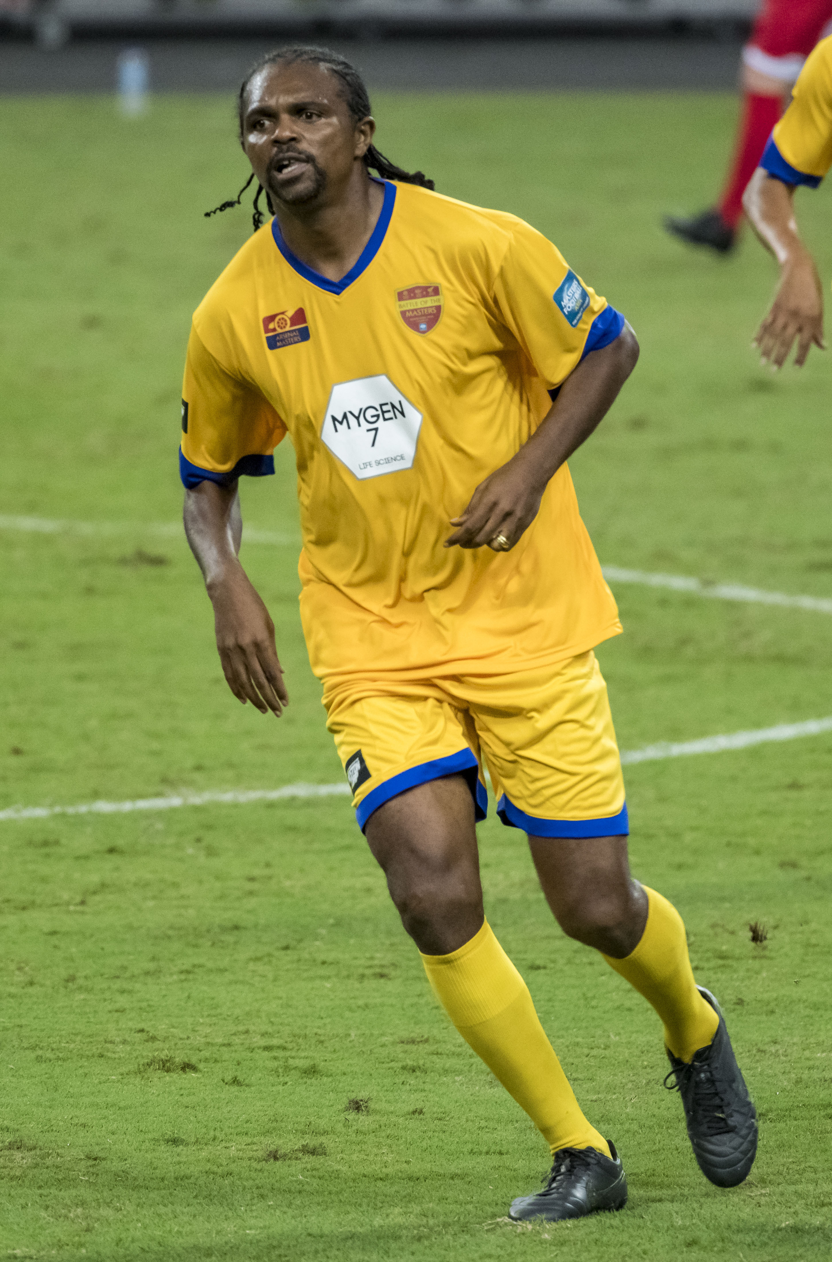 Singapore, National Stadium, November 11, 2017. Retired Nigerian footballer Nwankwo Kanu in a friendly match with Arsenal Masters.